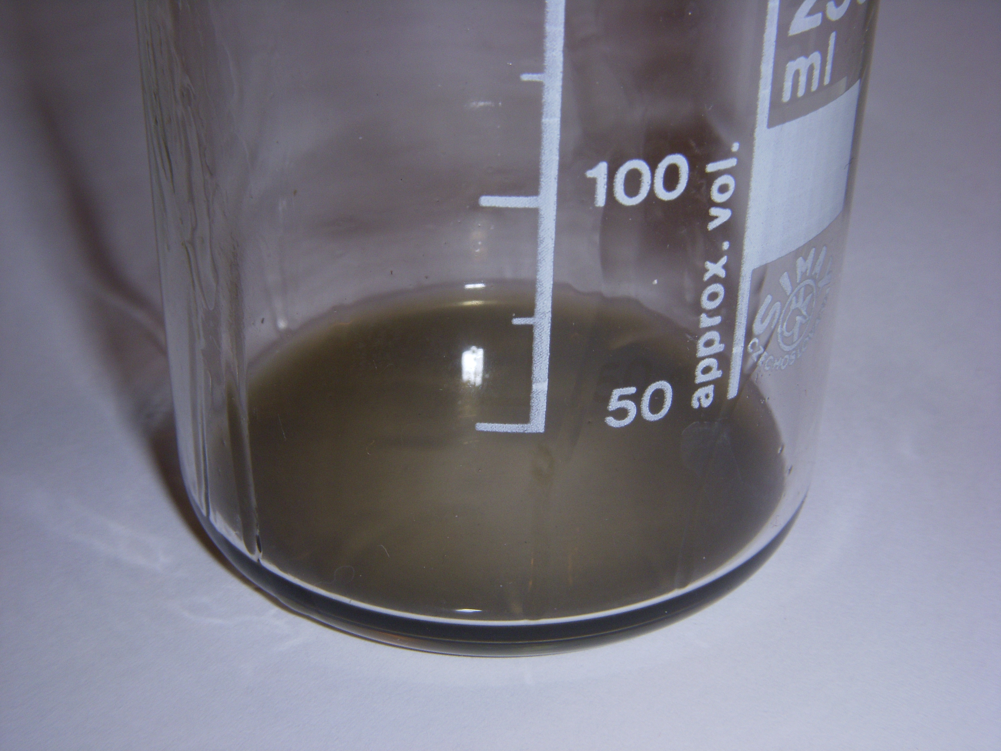 Salmiakki koskenkorva, detail of colour in very thin layer